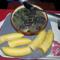 This is another delicacy that is common to the South-South region of Nigeria. The peppersoup is made seperately, while the plantain is boiled with its back peel until it is soft. The pepper soup is made with dried fish, crayfish, periwinkle (isam) and spices to taste. This is an image of food from Nigeria